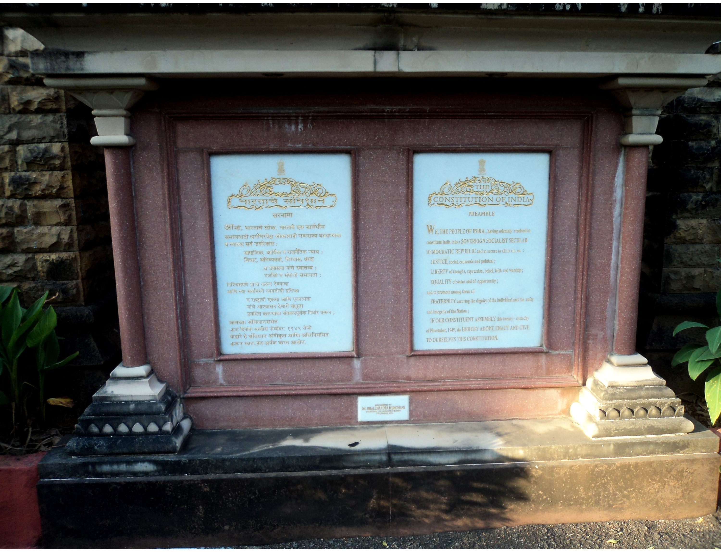 the preample of the constitution of India. found in mumbai university , mumbai